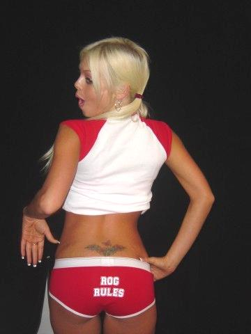 Jesse Jane at DP Tonight, October 12 2004